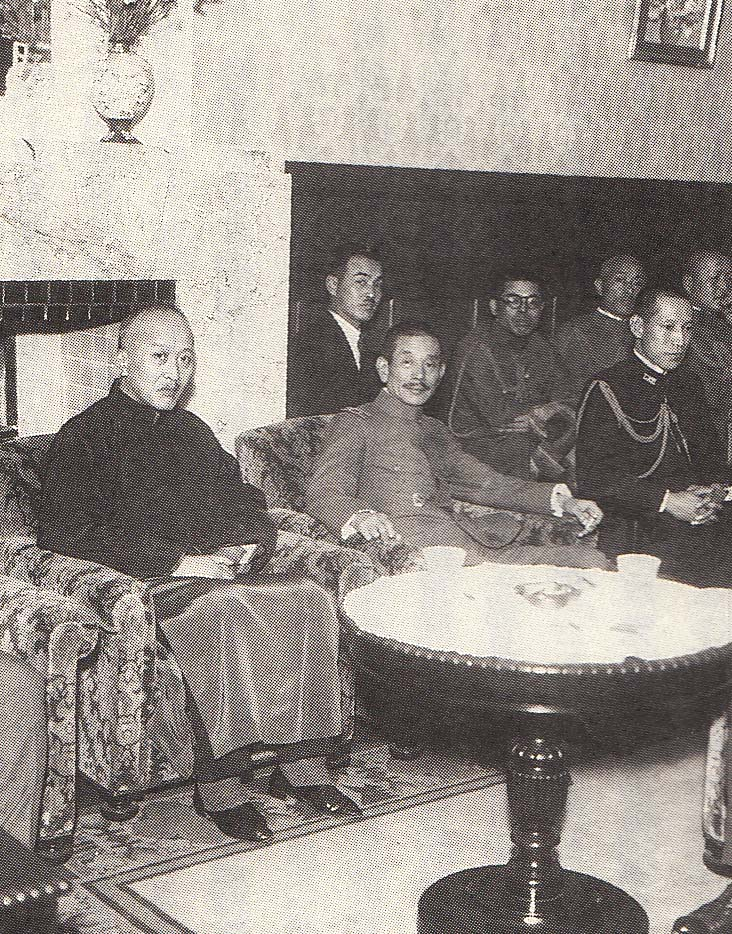 This photograph, taken on May 25 1933, shows a meeting of the Greater Asia Association held in honor of Ding Shiyuan, the envoy of Manchukuo to Japan. Seated from left to right are Ding Shiyuan, Iwane Matsui, and Shingo Ishikawa. I cropped the original photo so that Matsui would be in the center. The original photo also included Jiro Minami seated to the left of Ding Shiyuan.